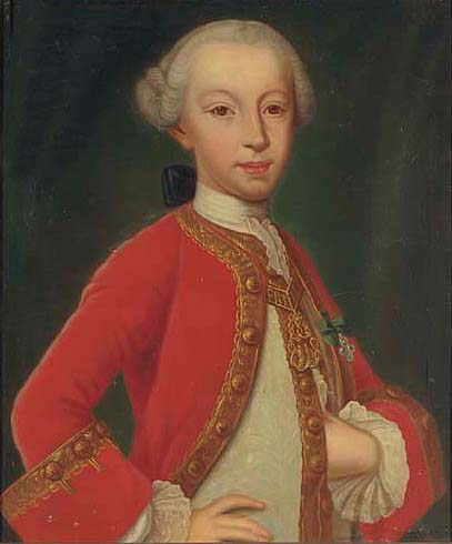 Portrait of King Carlo Emanuele IV of Sardinia (1751-1819), as a child, half-length, in a red coat with gold trimmings, wearing the order of the Annunziata